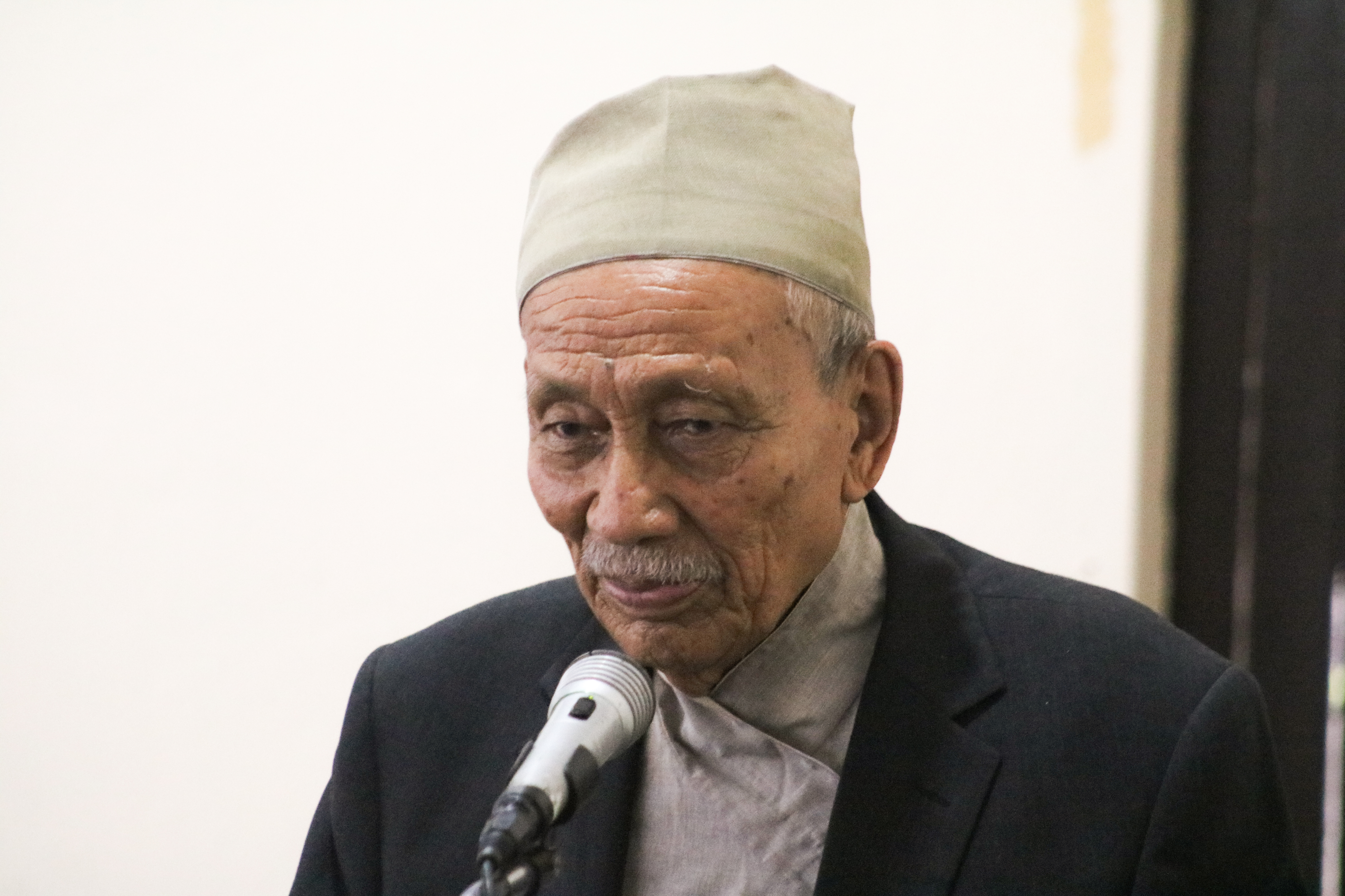 Satyamohan Joshi (born 1920; Nepali: सत्यमोहन जोशी) is a Nepali writer and scholar. Joshi is famous for his research on the history and culture of Nepal. नेपाली: सत्यमोहन जोशी (जन्म वि.सं. १९७७ बैशाख ३०) नेपालका संस्कृतिविद् हुन् । उनले वि.सं. २०१३, वि.सं. २०१७ र वि.सं. २०२८ मा मदन पुरस्कार पाएका छन्।